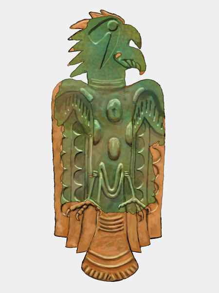 An illustration of an avian themed Mississippian culture repoussé copper plate found near Malden, Missouri in 1906. Reconstructed missing tail done using the bilateral symmetry of piece and taken from the Upper Bluff Lakes falcon plate thought to have been made by the same workshop or artist. One of eight plates found in the Wulfing cache, this one is designated Plate E, actual plate (not including reconstructed sections) is 33.5 centimetres (13.2 in) in length by 25.3 centimetres (10.0 in) in length by 14.2 centimetres (5.6 in) in width and weighs 63.7 grams (2.25 oz).[1]